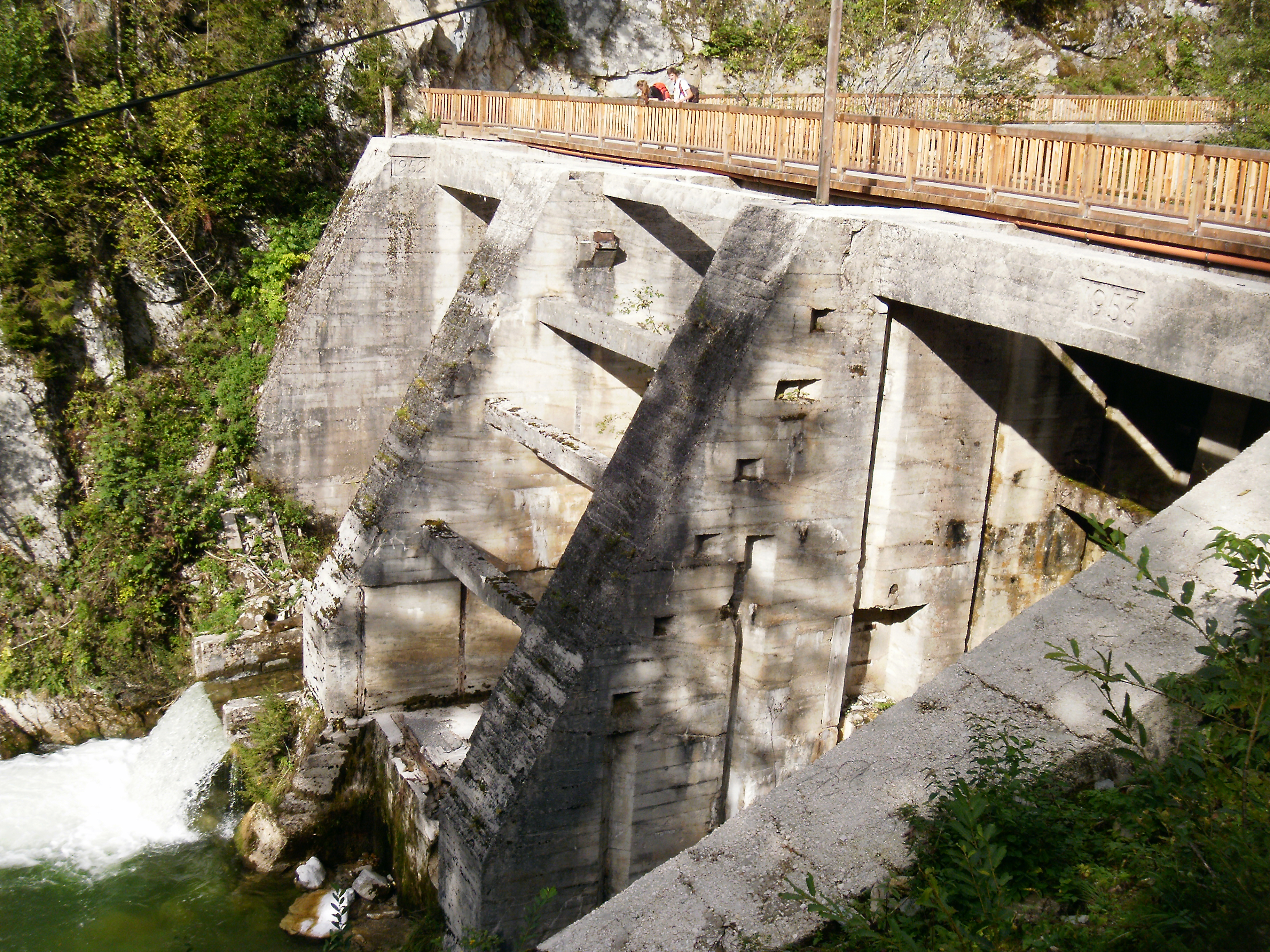 Erzherzog-Johann-Klause